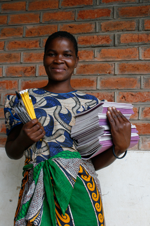 In Malawi, PIH works with local people to treat diseases in the community.